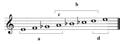 Ancient Greek Mixolydian tonos on E, in the chromatic genus, with tetrachords labeled